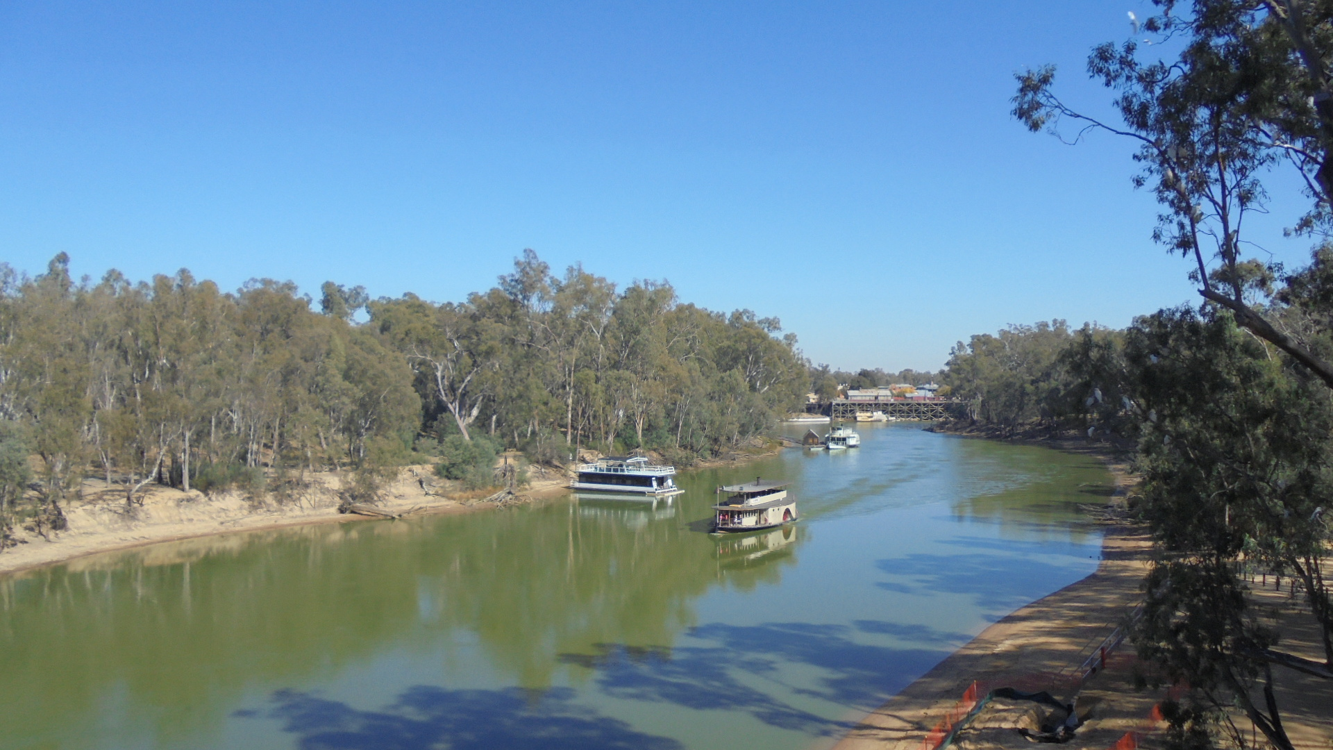 Murray River - Longest River of Australia